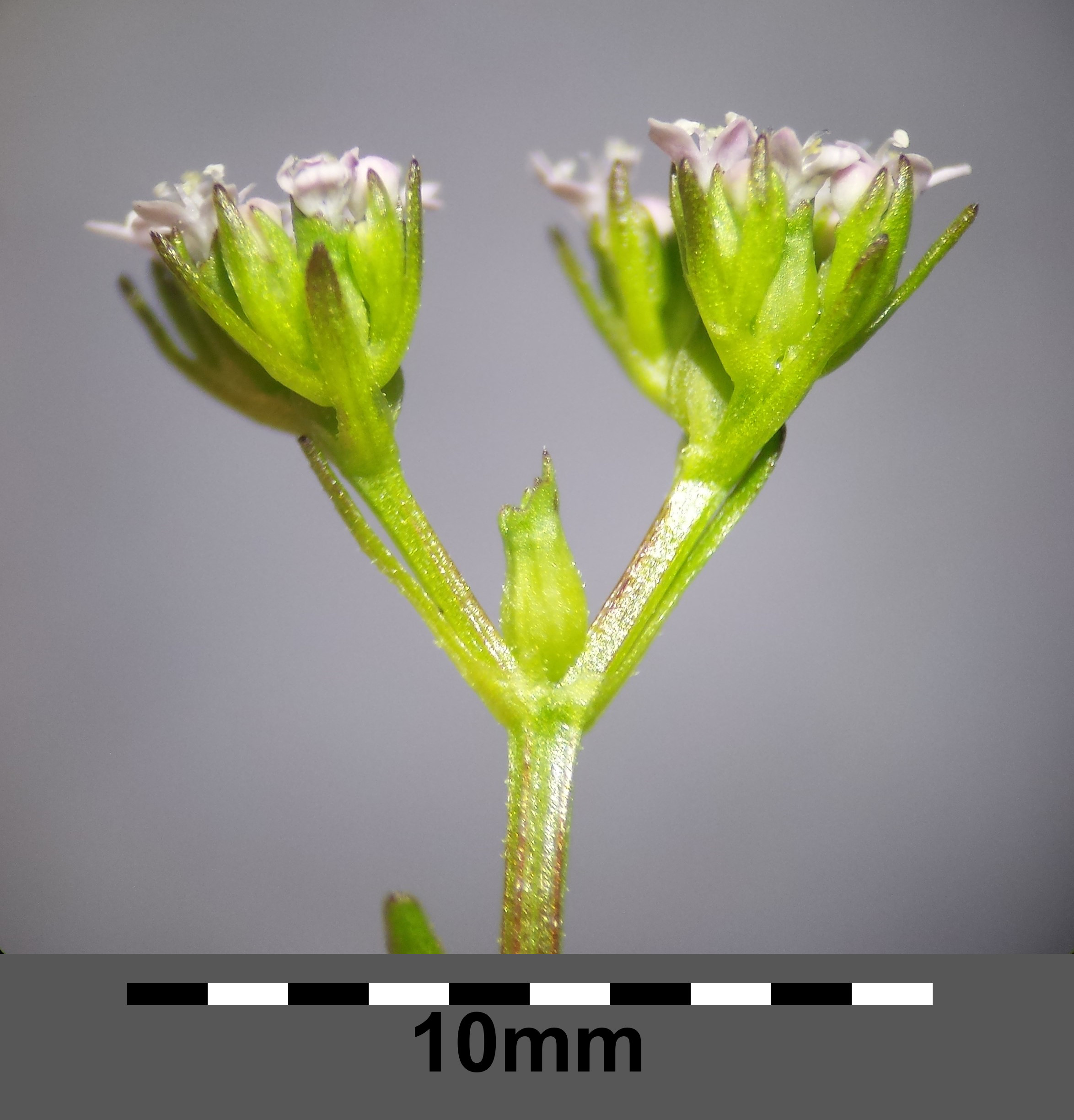 Inflorescence Taxonym: Valerianella dentata ss Fischer et al. EfÖLS 2008 ISBN 978-3-85474-187-9 Location: Grillenberg near Niederhollabrunn, district Korneuburg, Lower Austria - ca. 350 m a.s.l. Habitat: fallow land